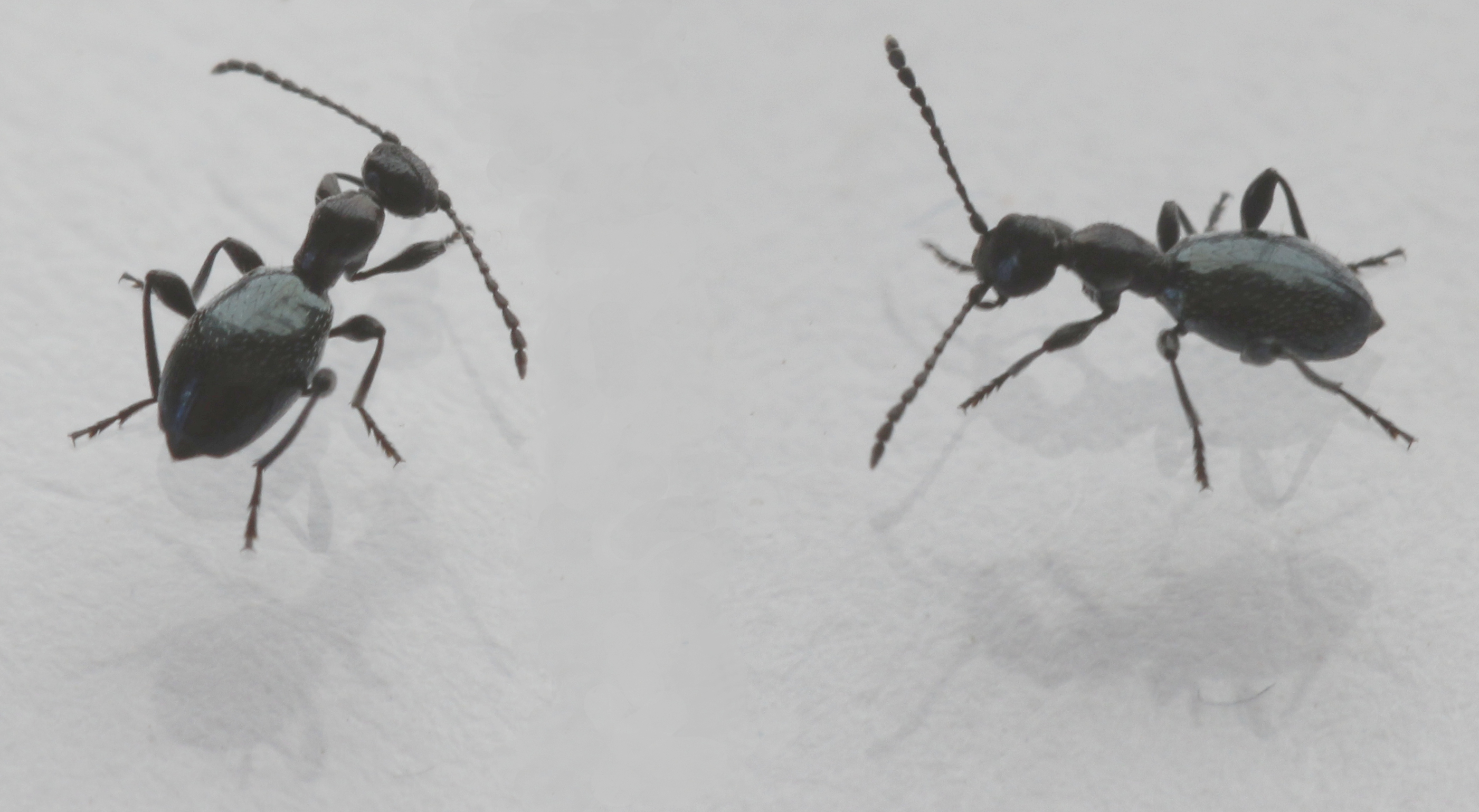 Coleoptera Anthicidae. Anthelephila cyanea. Renamed from Formicomus caerulea. An inoffensive small beetle, locally common, often taken for an ant by non-biologists.